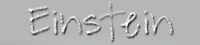 Logo of the German crime television series "Einstein"